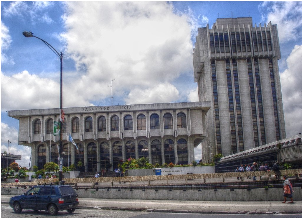 Supreme Court building in Guatemala City